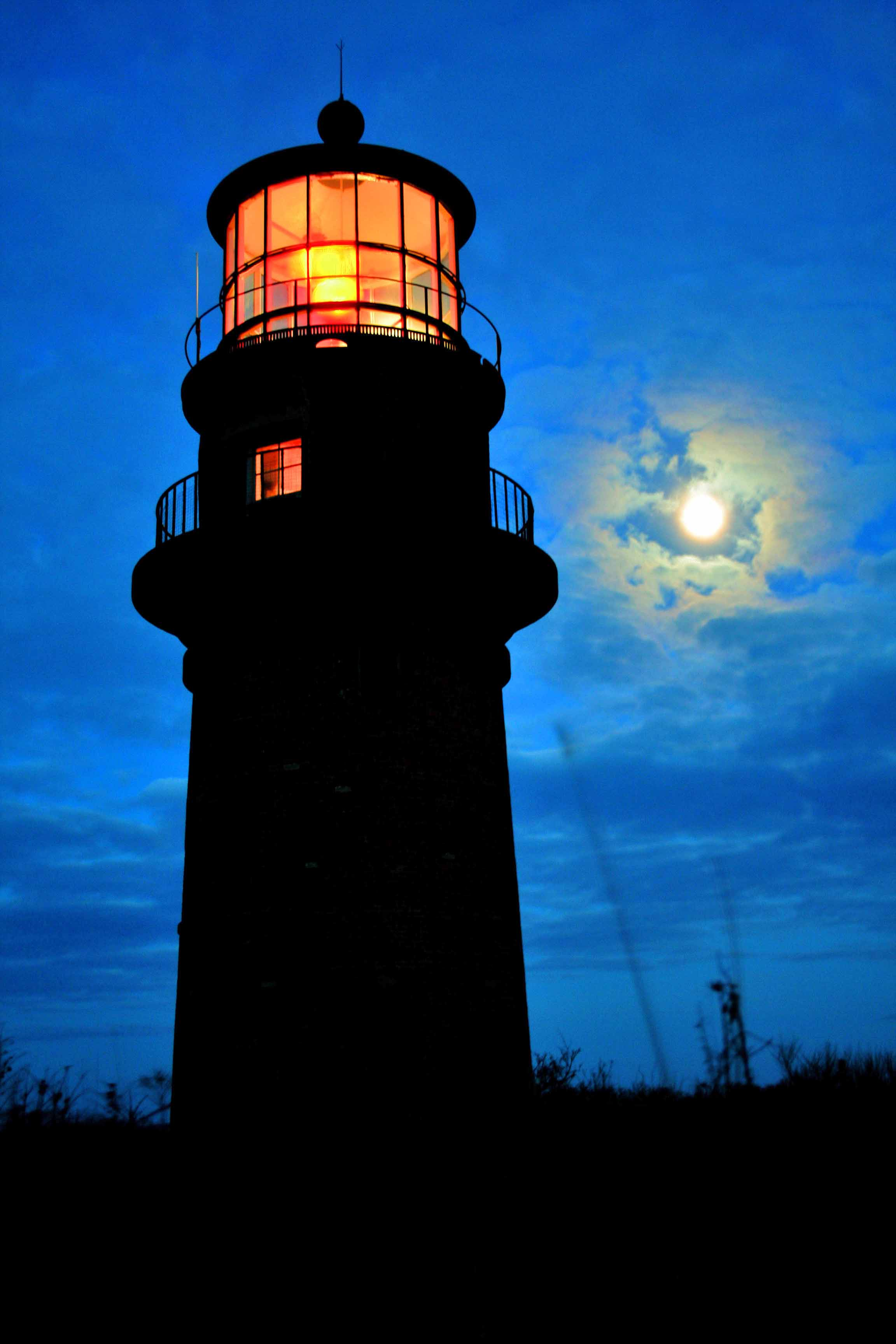 Taken on a freezing cold night after midnight when the Winter Solstice full moon was peaking though a veil of clouds.